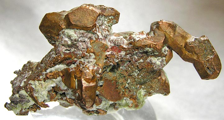 Copper Locality: Houghton, Houghton County, Michigan, USA (Locality at ) A finely-crystallized Michigan copper, with a particularly fine 1.8-cm crystal virtually hanging off one of the edges. 5.1 x 3.0 x 2.8 cm